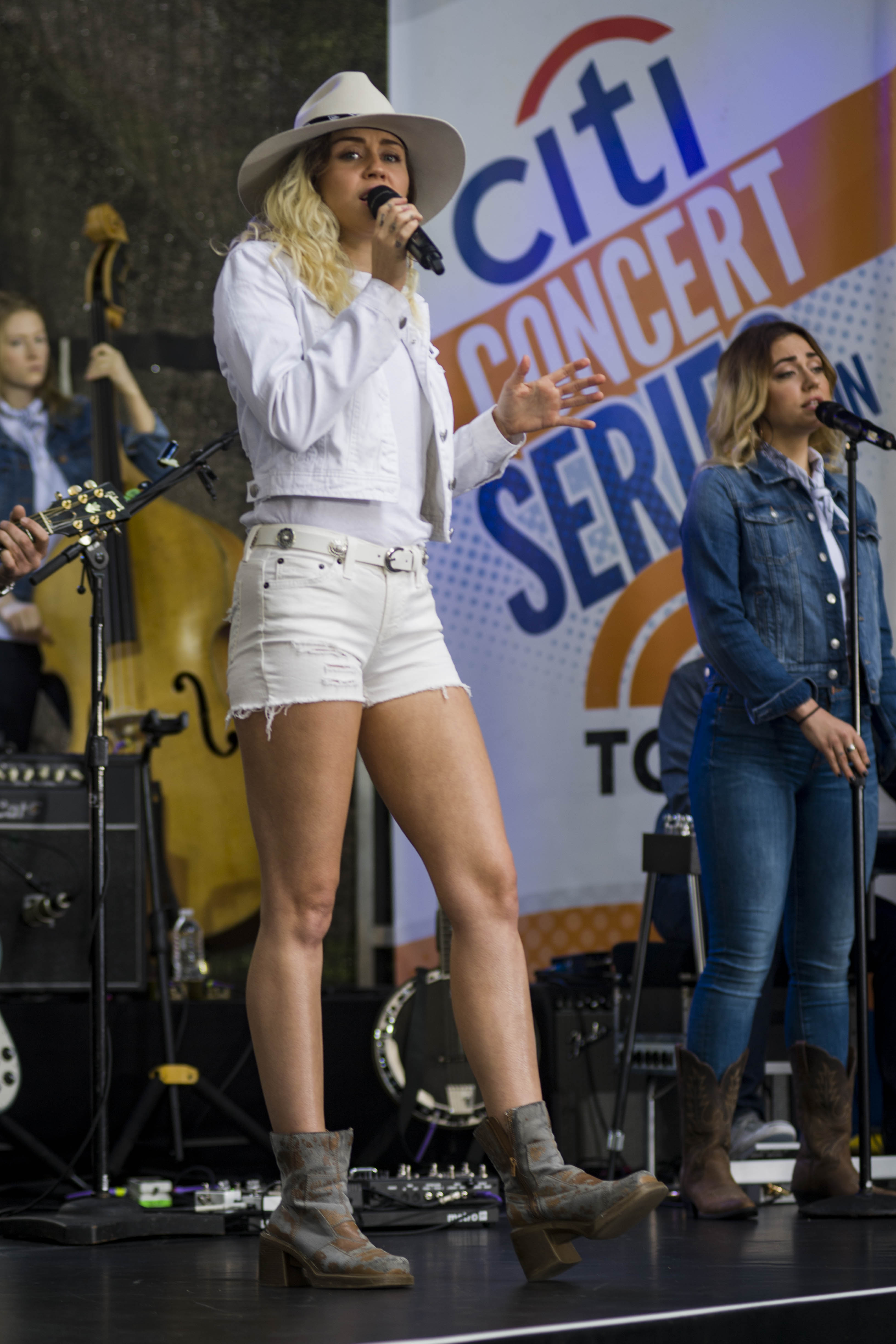 170526-N-EO381-109 NEW YORK (May 26, 2017) Ð Miley Cyrus performs on the Today Show in downtown Manhattan for Fleet Week New York (FWNY). FWNY, now in is 29th year, is the cityÕs time honored celebration of the sea services. It is an unparalleled opportunity for the citizens of New York and the surrounding tri-state area to meet Sailors, Marines and Coast Guardsmen, as well as witness firsthand the latest capabilities of todayÕs maritime services. (U.S. Navy photo by Mass Communication Specialist 3rd Class Casey J. Hopkins/Released)